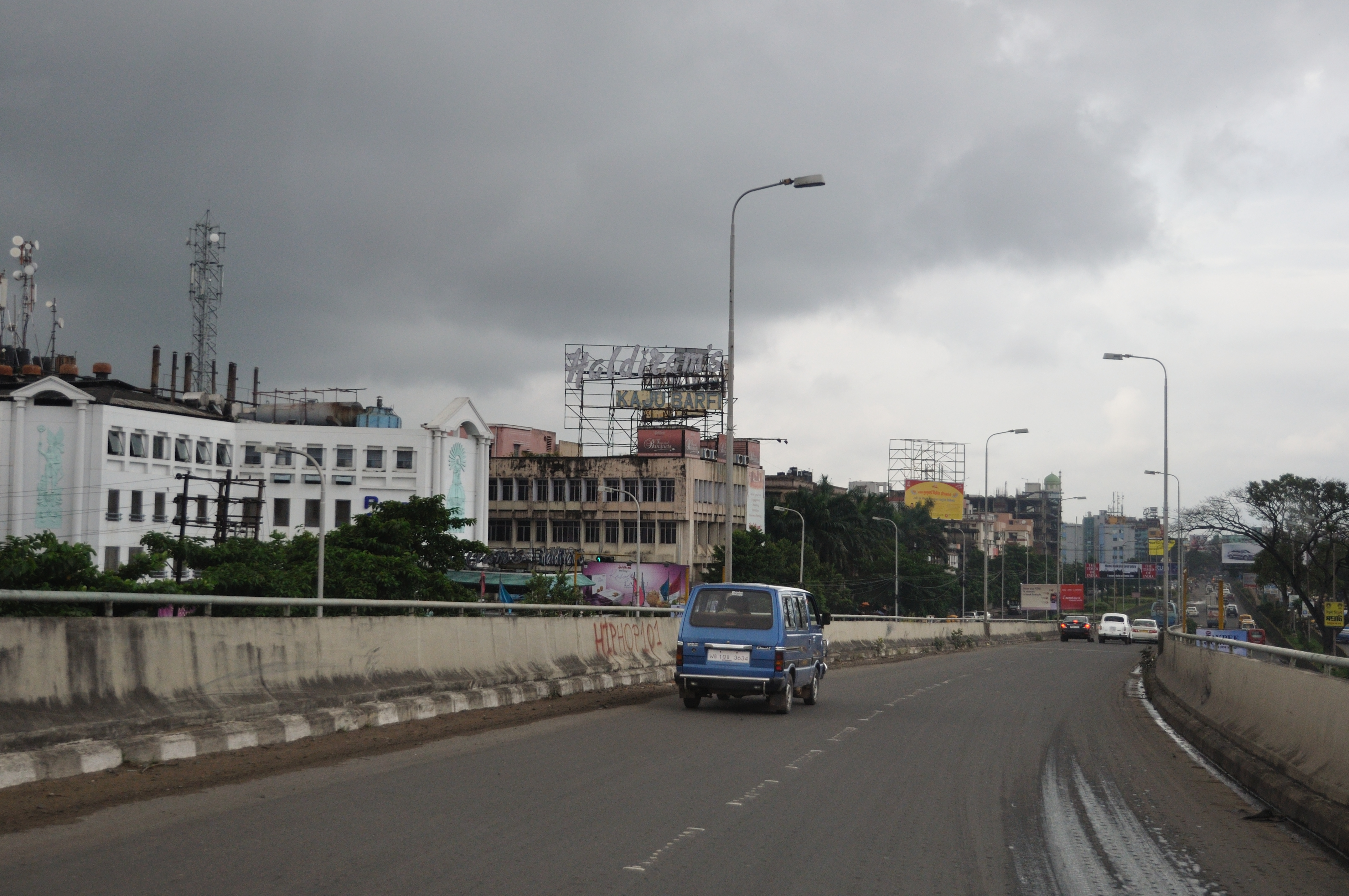 Roads in Kolkata. This media file is uploaded with India loves Wikipedia event.